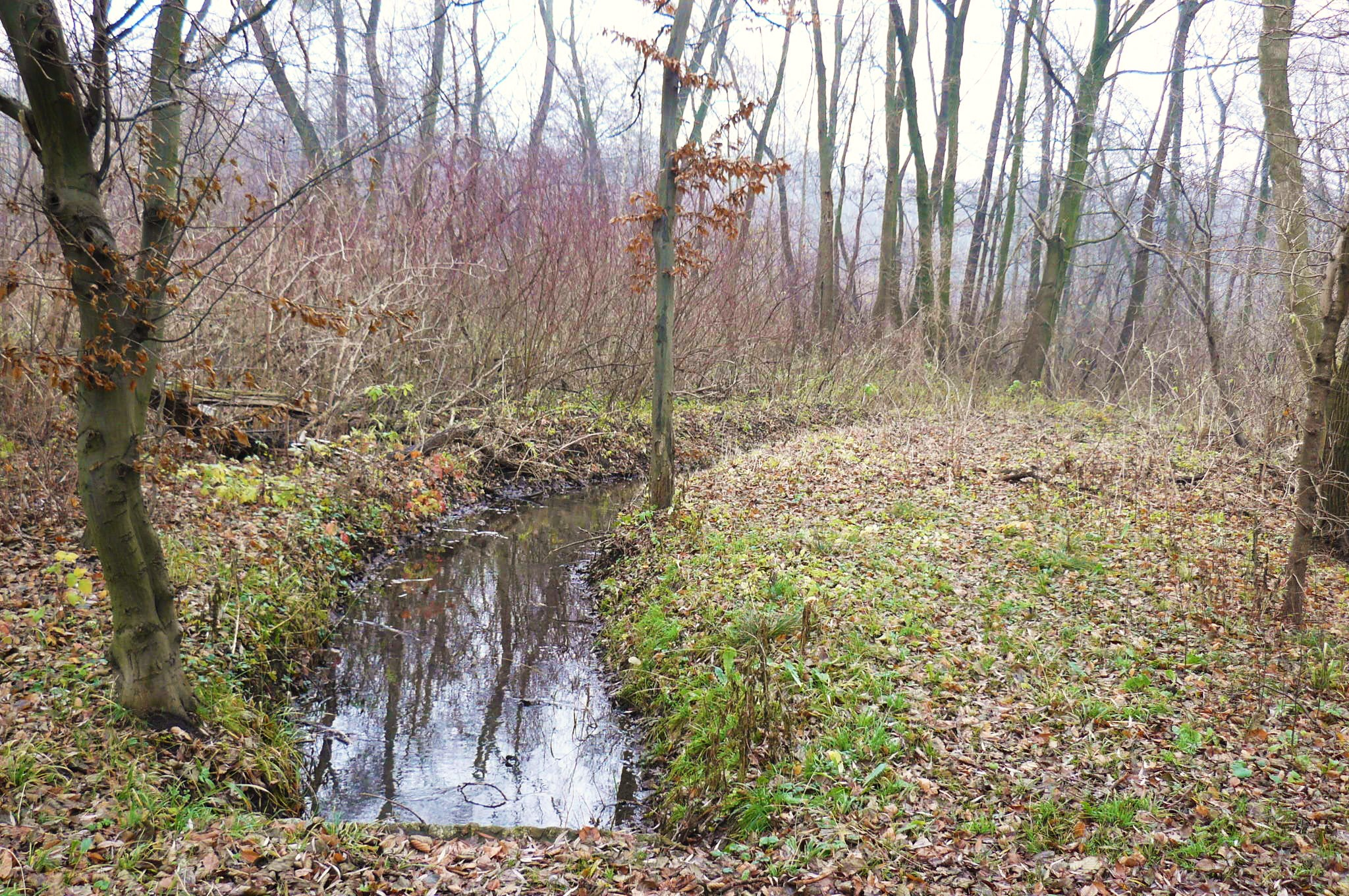 Golecinka River, Poznan.